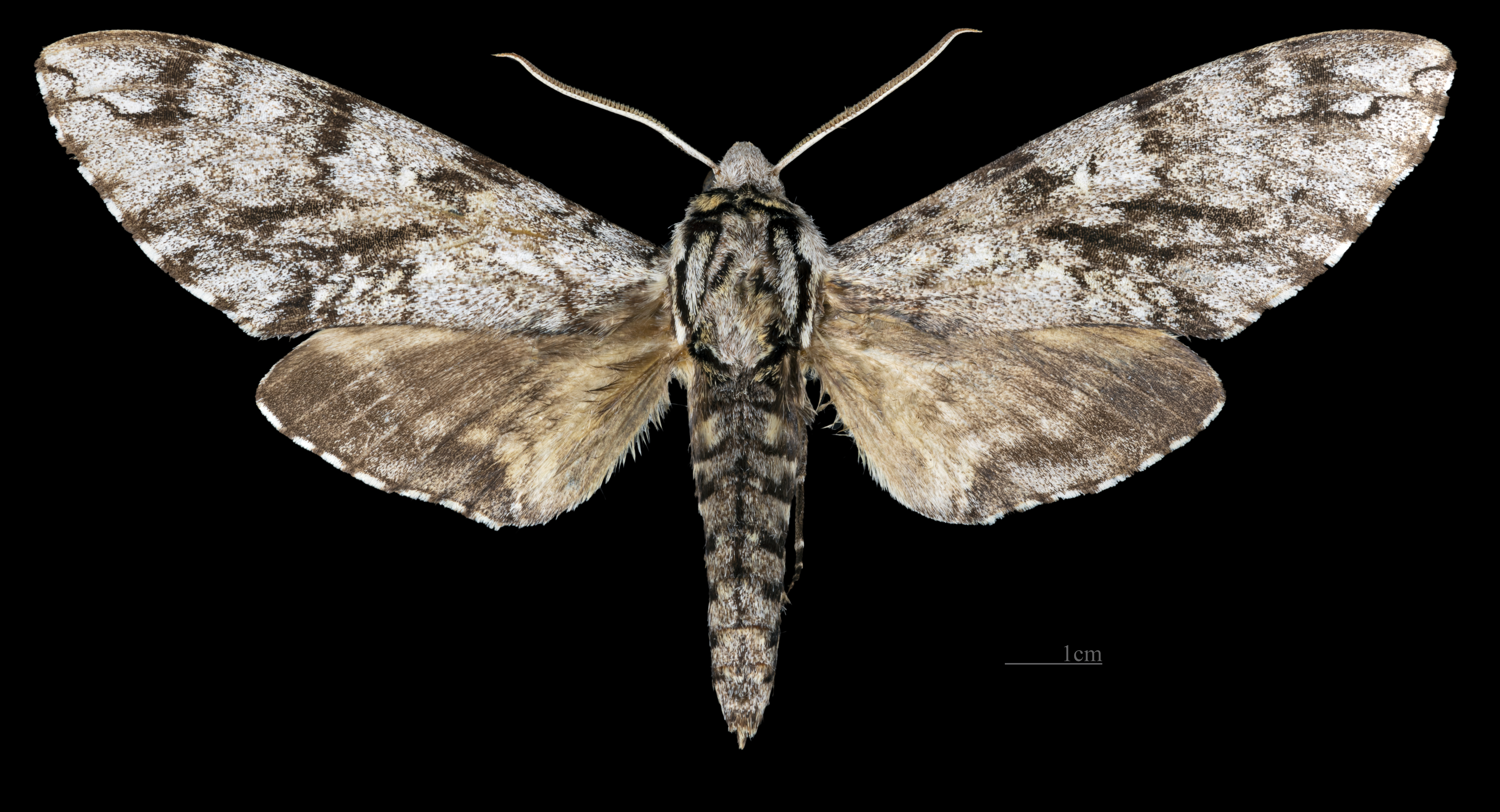 Sonoran sphinx - Dorsal side Collection of the Mathematician Laurent Schwartz